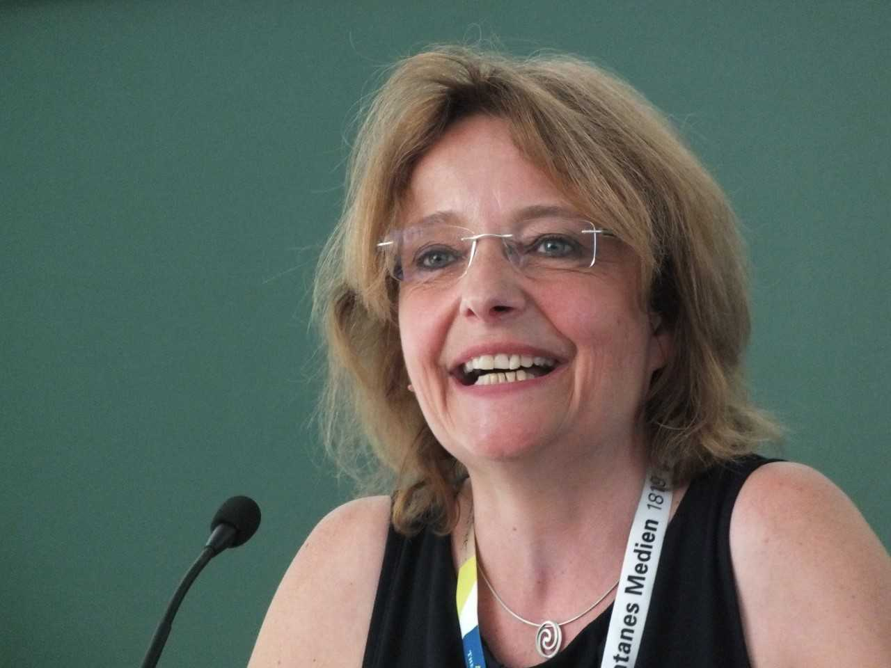 Textual / Edition Scholar Gabriele Radecke